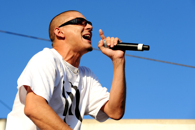 Southbound Festival 2011